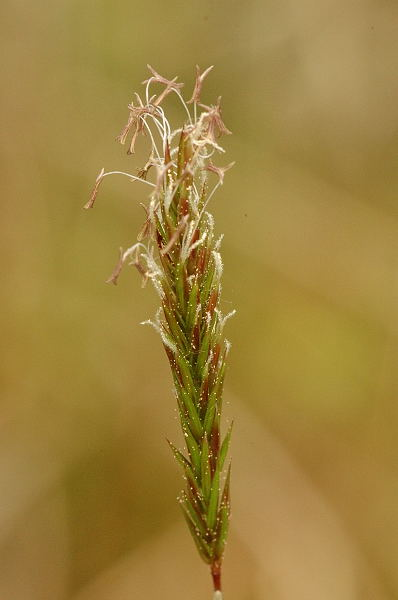 Picture taken in Commanster, Belgian High Ardennes . Species: Anthoxanthum odoratum